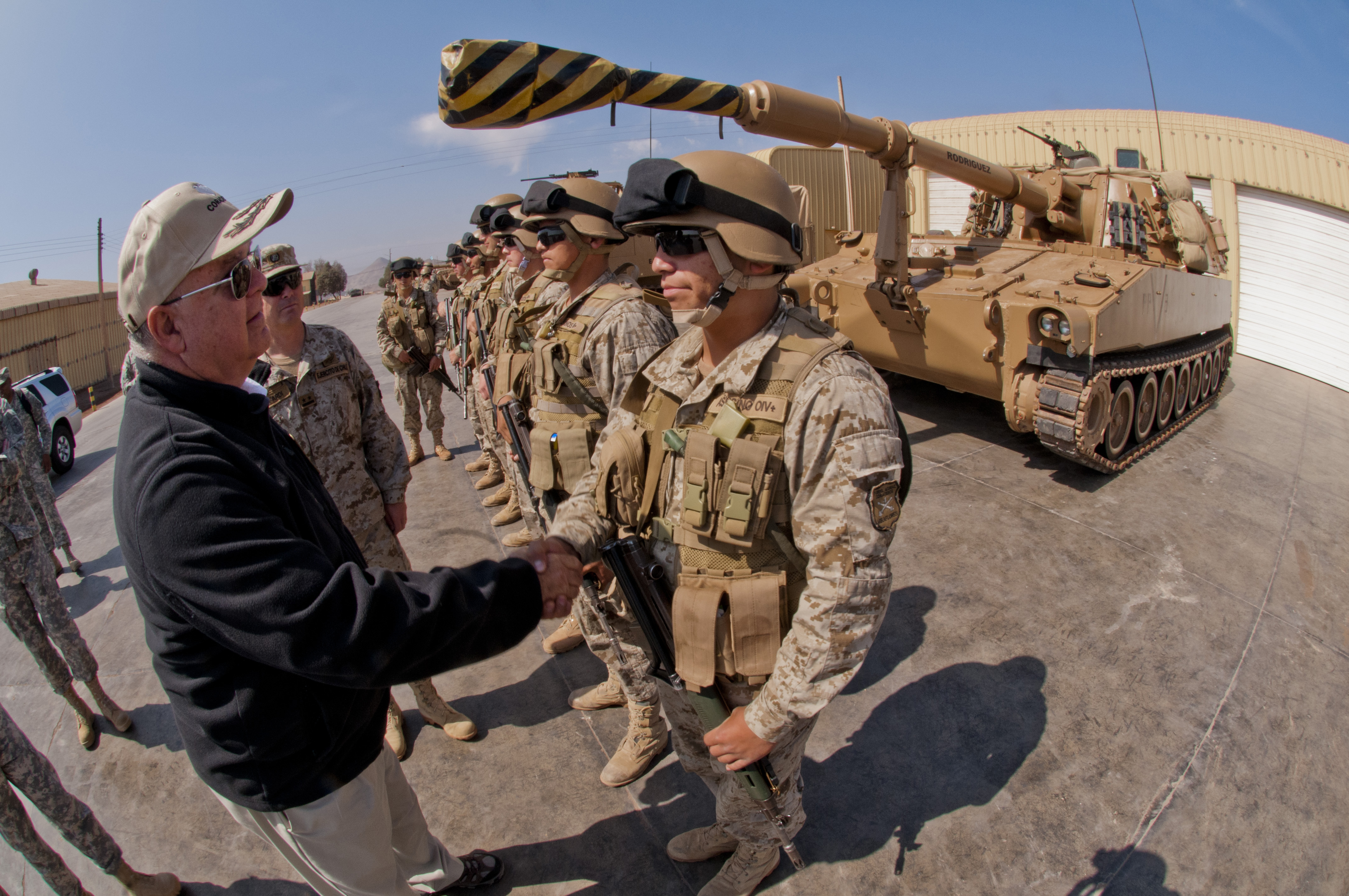 U.S. Under Secretary of the Army Joseph W. Westphal thanks Chilean Artillerymen for their service during a visit to the Chilean VI Army Division headquarters in Arica, Chile, June 11, 2012. Dr. Westphal participated in the 12th U.S. - Chile Defense Consultative Commission and visited with select Chilean Army units to expand partnership capacity. The U.S. - Chilean defense partnership is focused on a range of initiatives, from disaster response to conducting joint exercises and training. (U.S. Army photo by Staff Sgt. Bernardo Fuller)